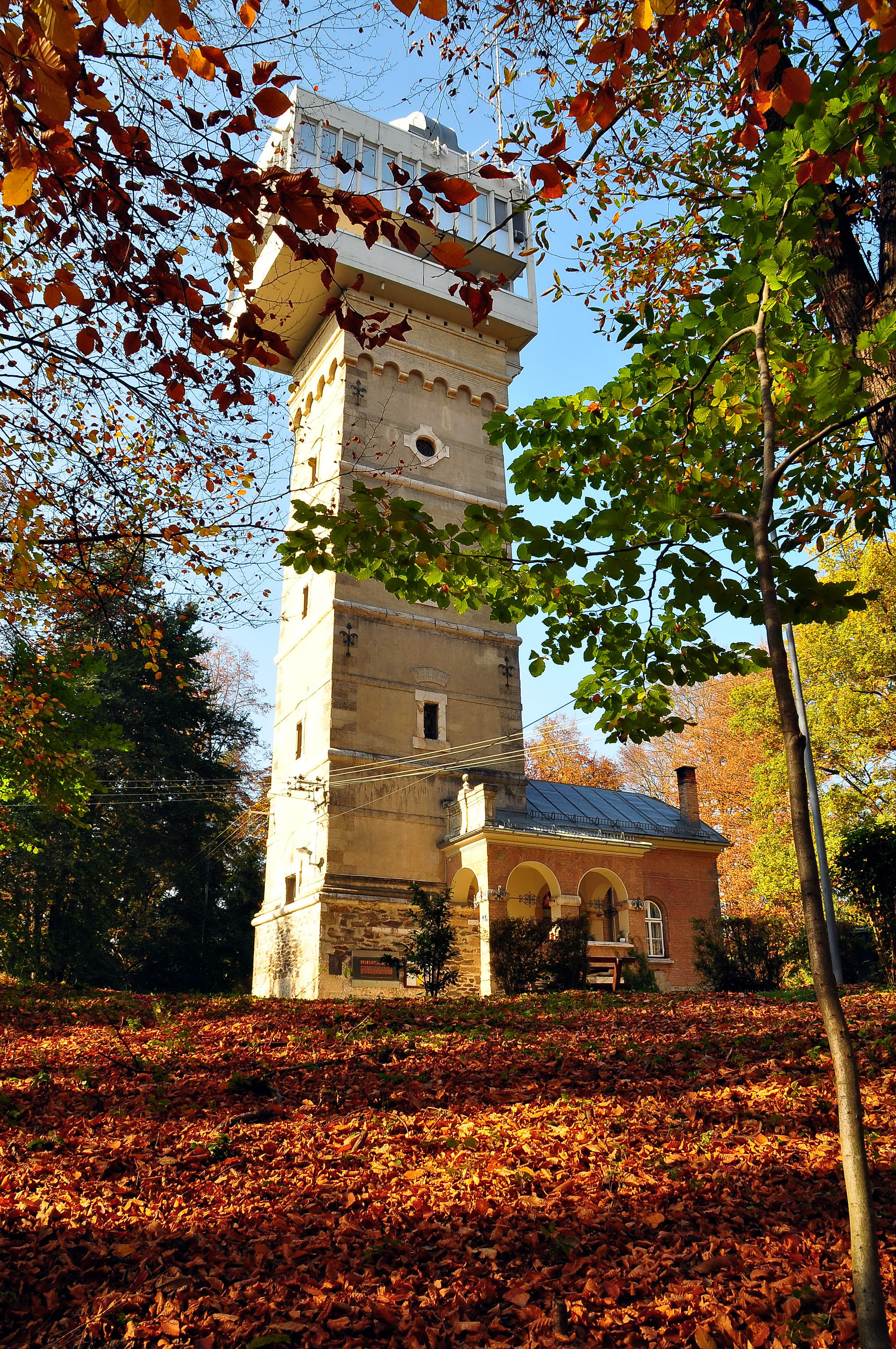 Observatory on Giordano Bruno Weg #1 on "Kreuzbergl", 8th district “Villacher Vorstadt”, municipality Klagenfurt on the Lake Woerth, Carinthia, Austria, EU